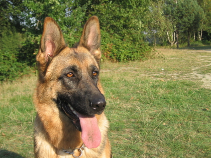 German shepherd dog